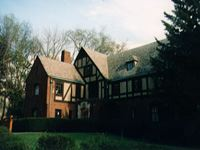 Small version of Seal and Serpent Lodge